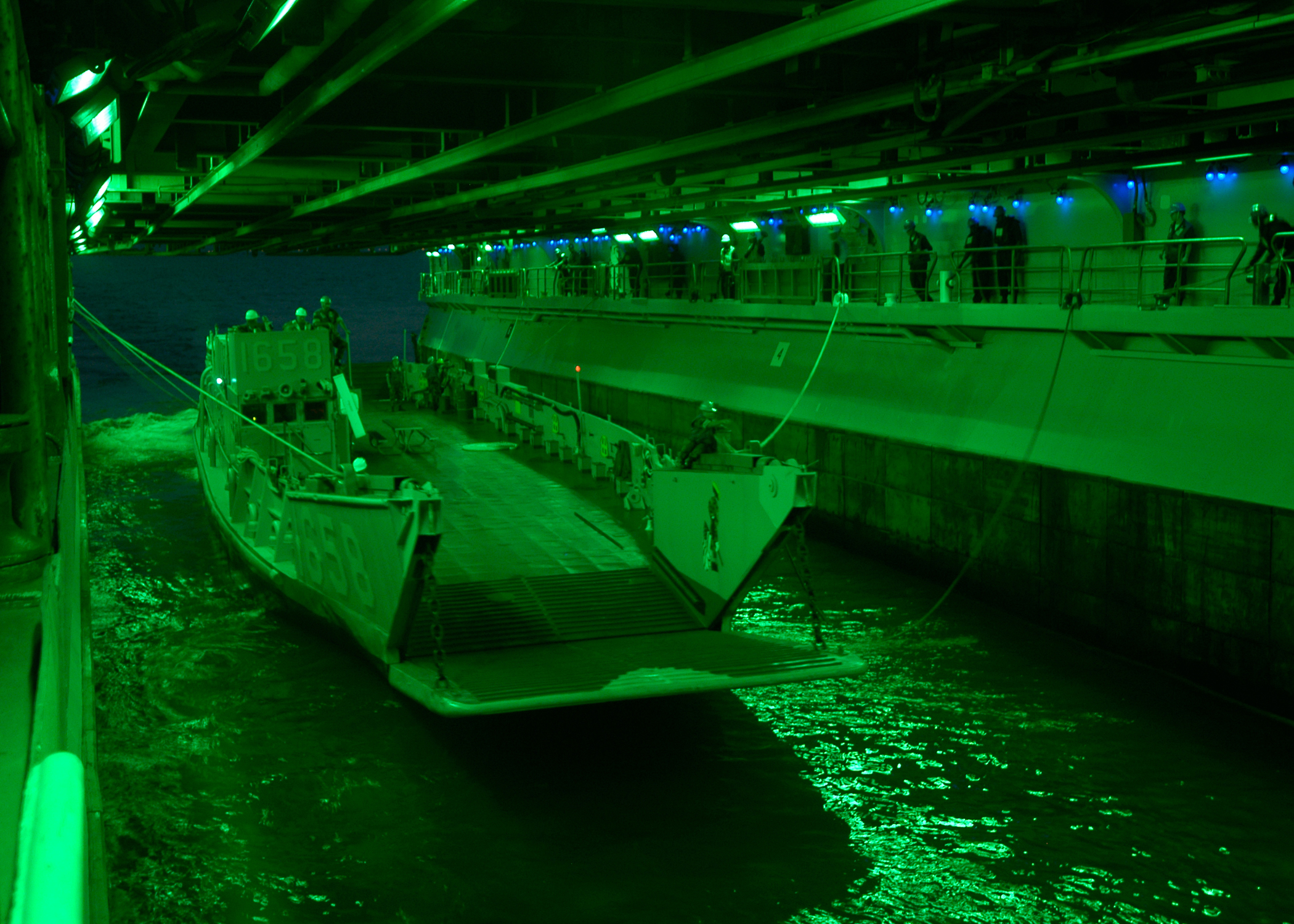 050621-N-8053S-154 Atlantic Ocean - Landing Craft Unit One Six Five Eight (LCU 1658) assigned to Amphibious Craft Unit Two (ACU-2) is held in position by mooring lines inside the well deck of amphibious assault ship USS Wasp (LHD 1). Wasp was recently outfitted with an experimental lighting configuration and is currently testing its effectiveness during her well deck certification.